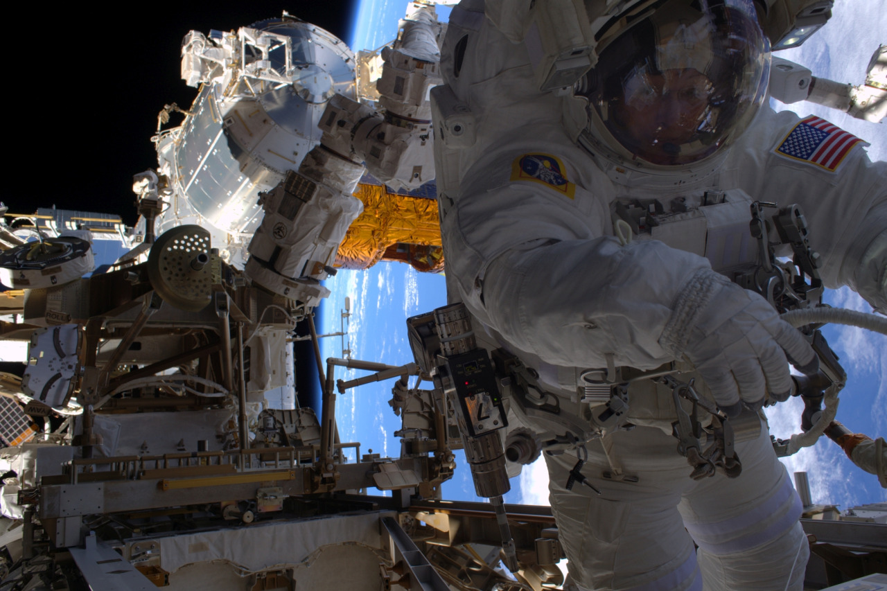 NASA Astronaut Peggy Whitson's 7th Spacewalk Flight Engineer Peggy Whitson along with Expedition 50 Commander Shane Kimbrough successfully installed three new adapter plates and hooked up electrical connections for three of the six new lithium-ion batteries on the International Space Station during last weeks spacewalk.